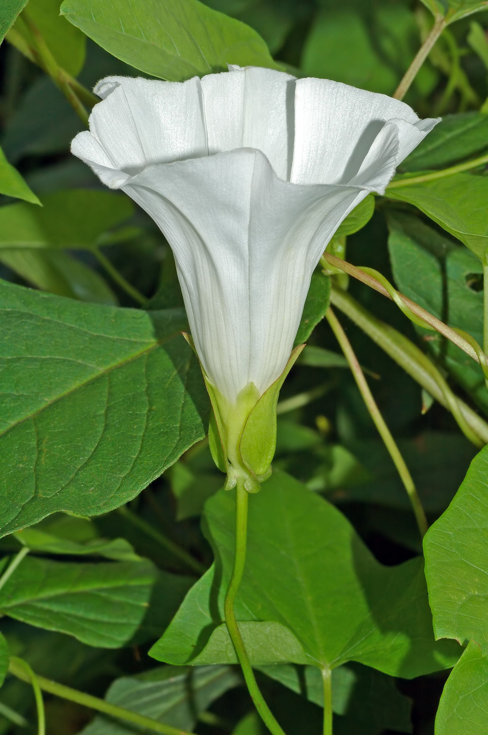 This image shows a Hedge False Bindweed (Calystegia sepium sepium).